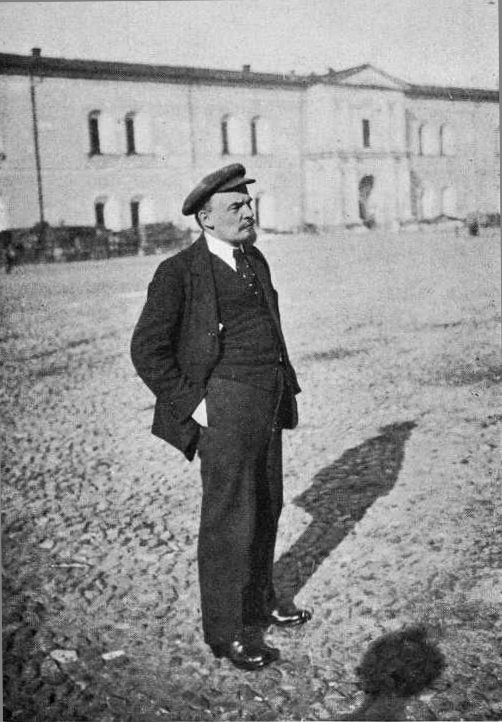 Photo of Lenin in the Kremlin.